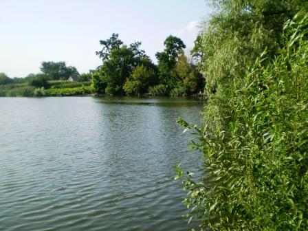 Озеро-стариця_в_Оржицьких_плавня